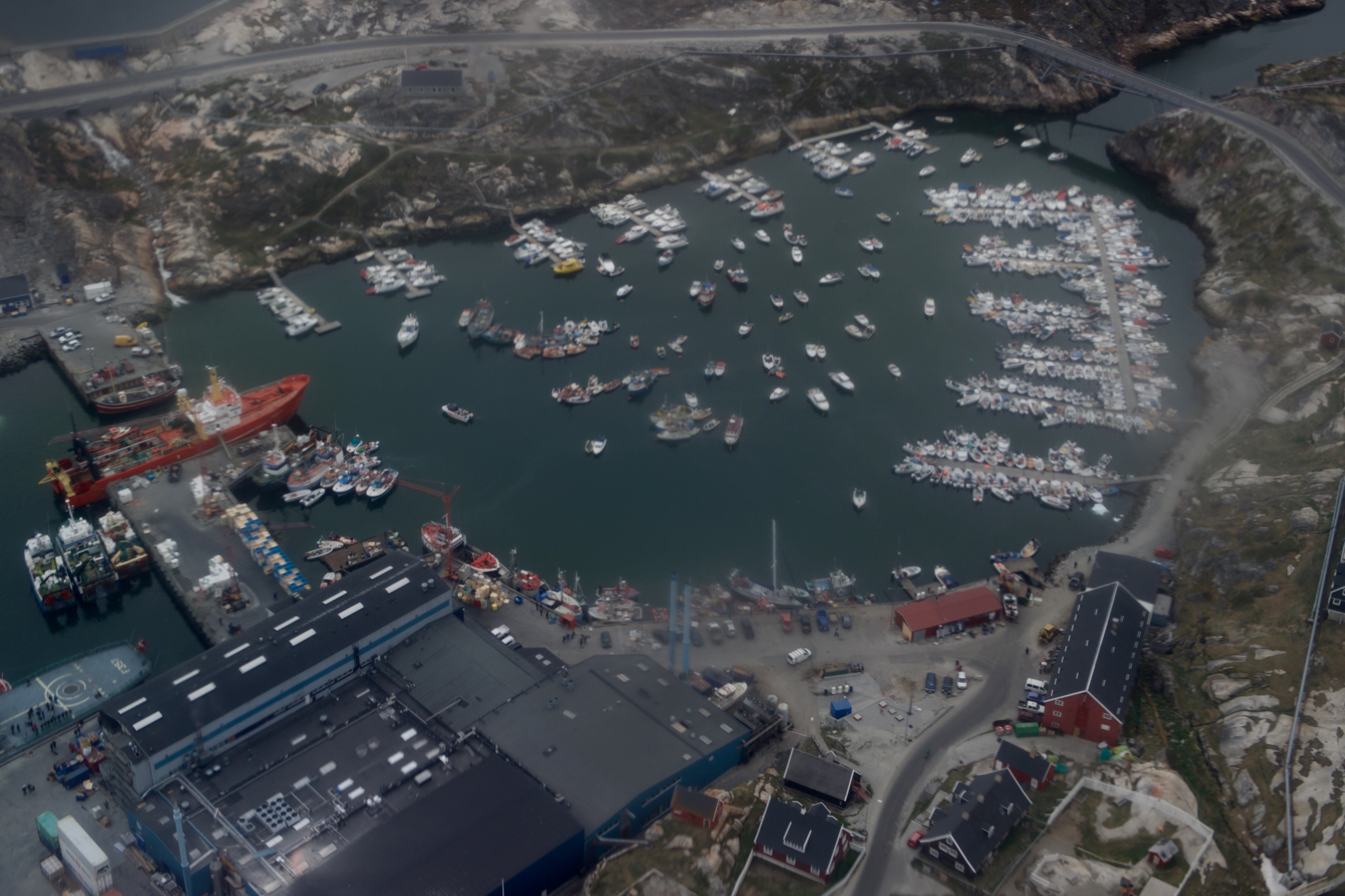 The town of Ilulissat, Greenland, is seen from a plane carrying U.S. Secretary of State John Kerry on June 17, 2016, during a flight from Kangerlussuaq, Greenland, to Ilulissat as he and Danish Foreign Minister Kristian Jensen flew over the Jacobshavn Glacier Front and prepared to meet with Greenlandic Premier Kim Kielsen and Foreign Minister Vittus Qujaukitsoq, and take a cruise through an iceberg field next to the town aboard the HDMS Thetis. [State Department photo/ Public Domain]